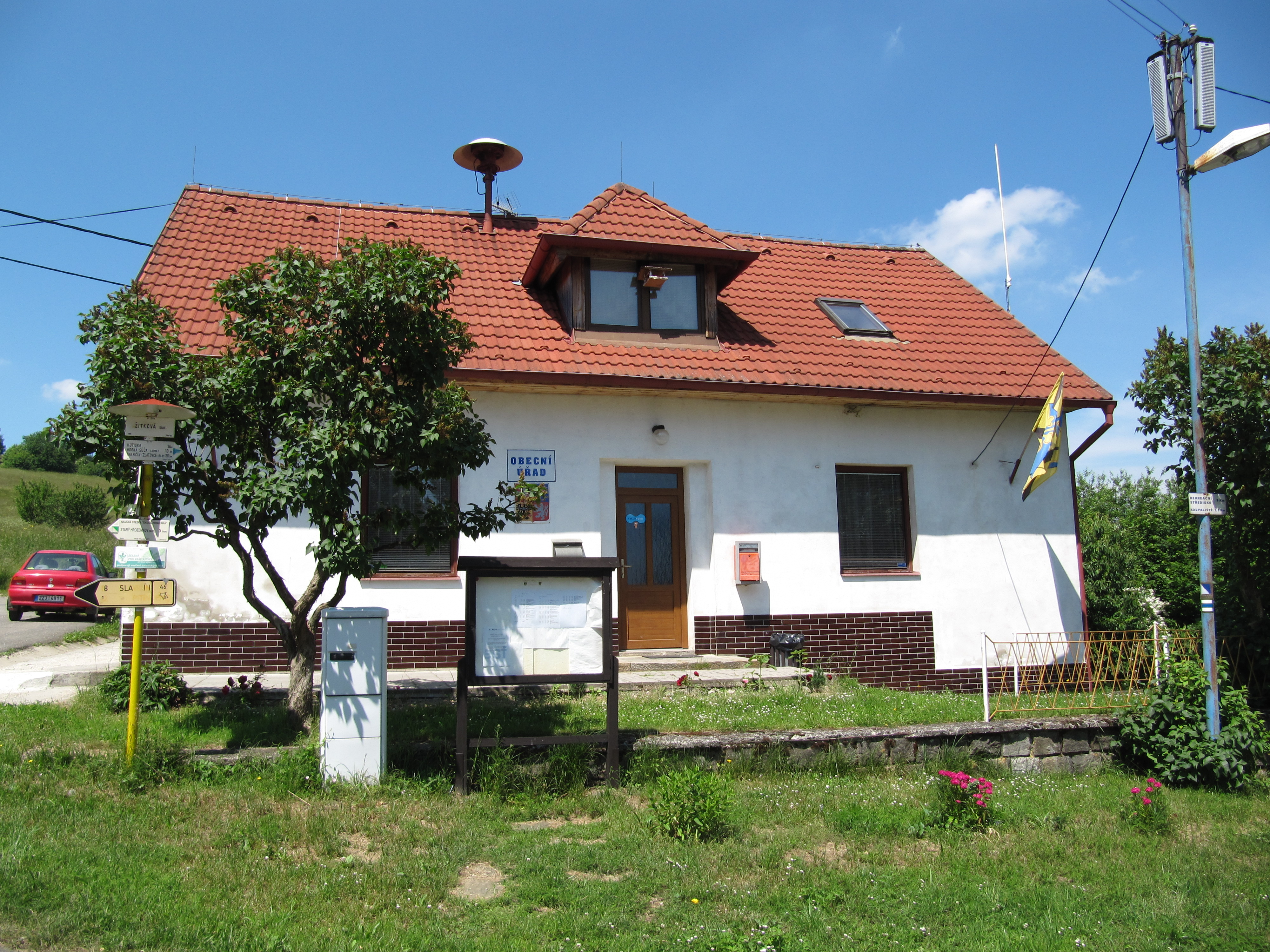 Žítková in Uherské Hradiště District, Czech Republic. Bývalý obecní úřad.